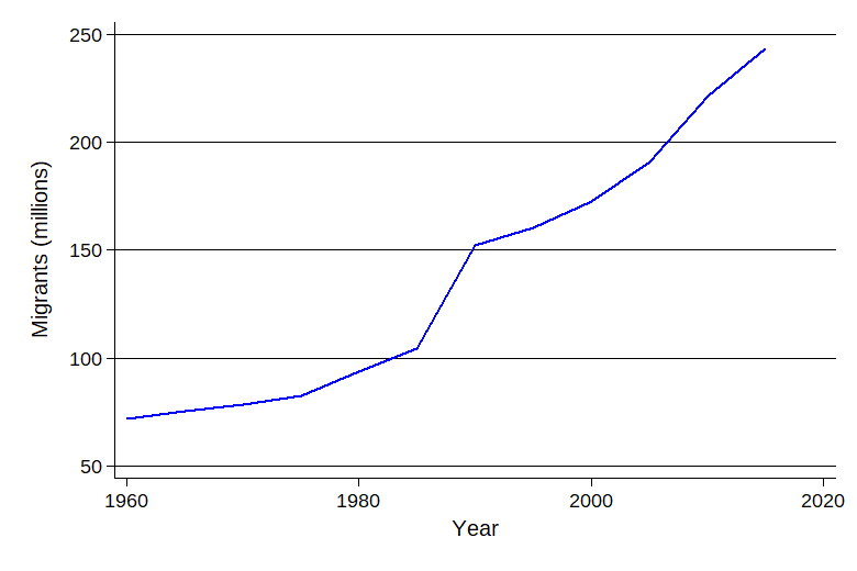 The number of migrants in the world 1960-2015. See note from World bank below for details. "International migrant stock is the number of people born in a country other than that in which they live. It also includes refugees. The data used to estimate the international migrant stock at a particular time are obtained mainly from population censuses. The estimates are derived from the data on foreign-born population--people who have residence in one country but were born in another country. When data on the foreign-born population are not available, data on foreign population--that is, people who are citizens of a country other than the country in which they reside--are used as estimates. After the breakup of the Soviet Union in 1991 people living in one of the newly independent countries who were born in another were classified as international migrants. Estimates of migrant stock in the newly independent states from 1990 on are based on the 1989 census of the Soviet Union. For countries with information on the international migrant stock for at least two points in time, interpolation or extrapolation was used to estimate the international migrant stock on July 1 of the reference years. For countries with only one observation, estimates for the reference years were derived using rates of change in the migrant stock in the years preceding or following the single observation available. A model was used to estimate migrants for countries that had no data."